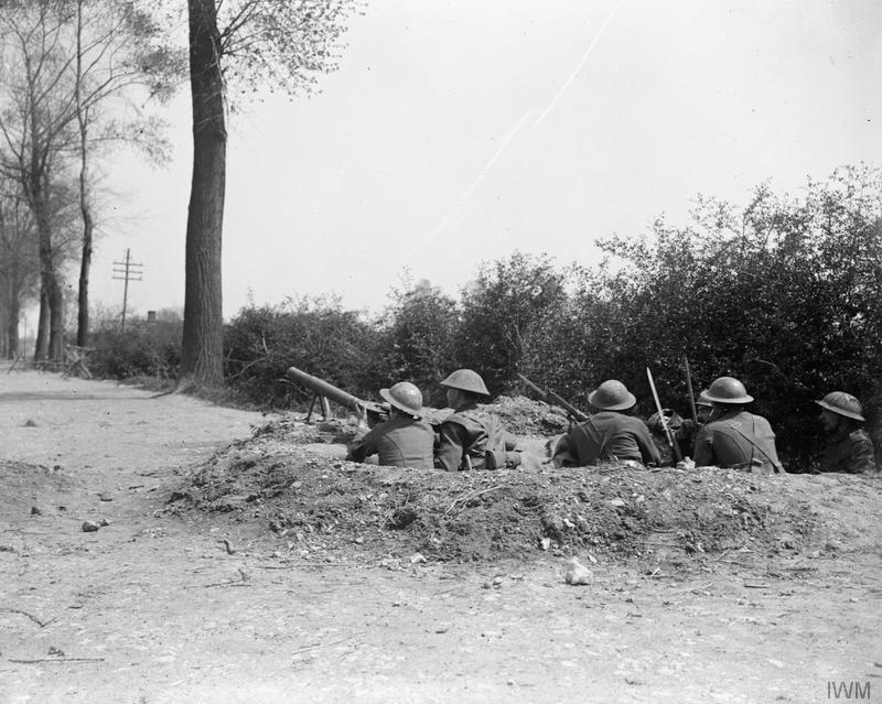 The German Spring Offensive, March-july 1918 The Battle of the Lys. Outpost manned by men of the 11th Battalion, Argyll and Sutherland Highlanders on a road beside the Lys Canal near Saint-Floris, 9 May 1918.